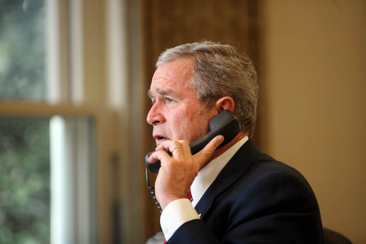 U.S. Preisdent George W. Bush speaks with Northern Illinois University President John G. Peters on the telephone on February 15, 2008 to offer his condolonces in wake of the Northern Illinois University shooting of February 14, 2008, which killed six and injured 18.